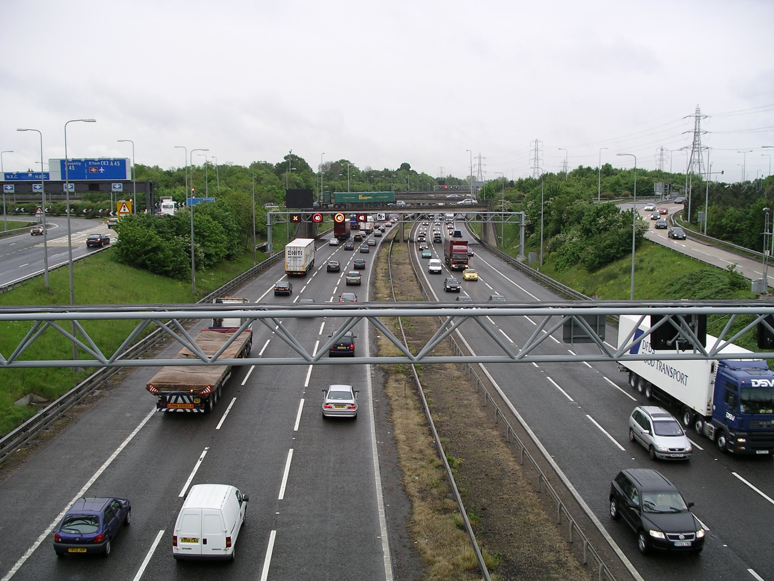 The M42 motorway - view taken from the bridge (leading to the NEC) just East of the M42/A45 intersection, West Midlands, England.